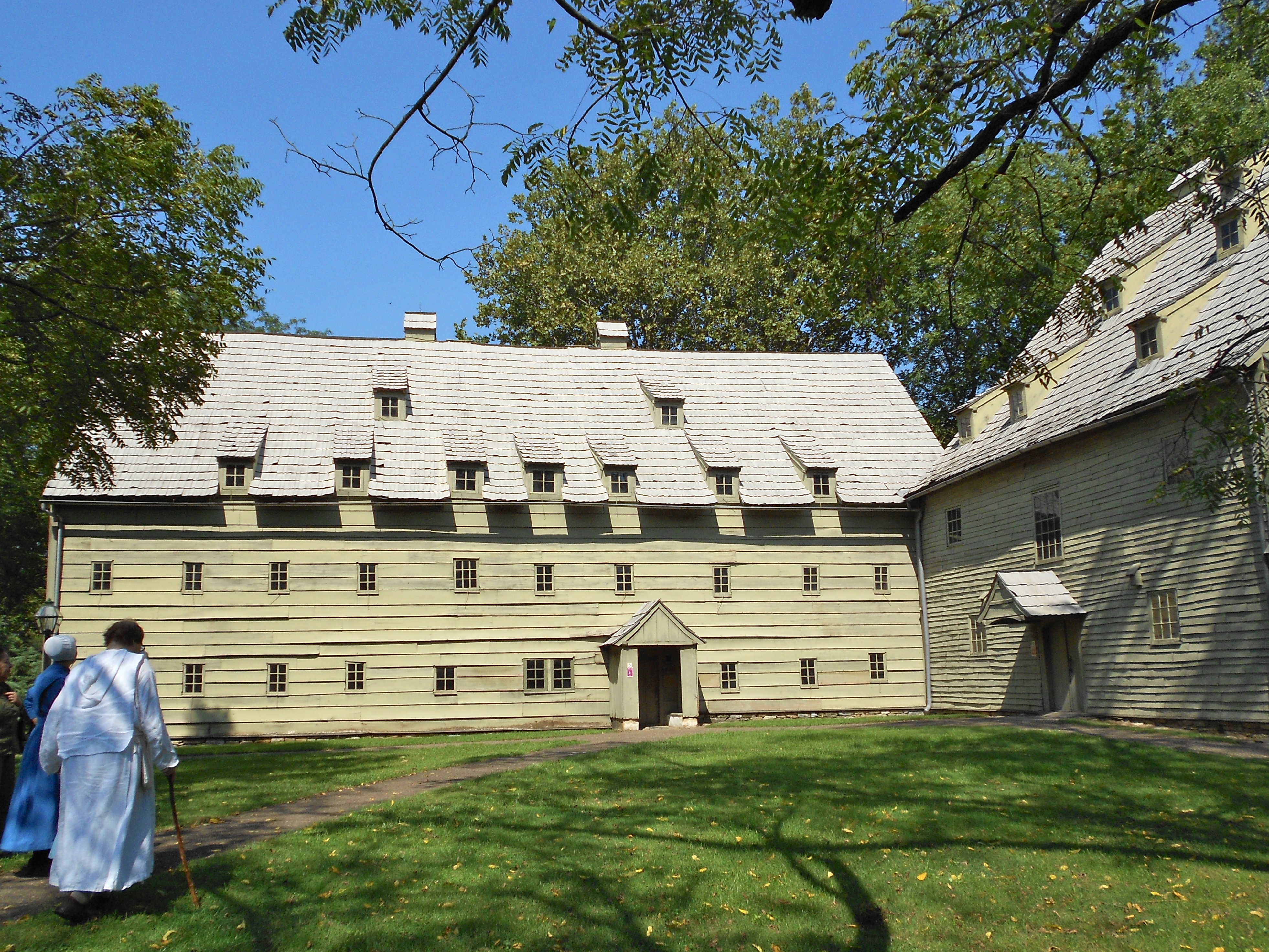 Ephrata Cloister Women's building (left) and meetinghouse (right)